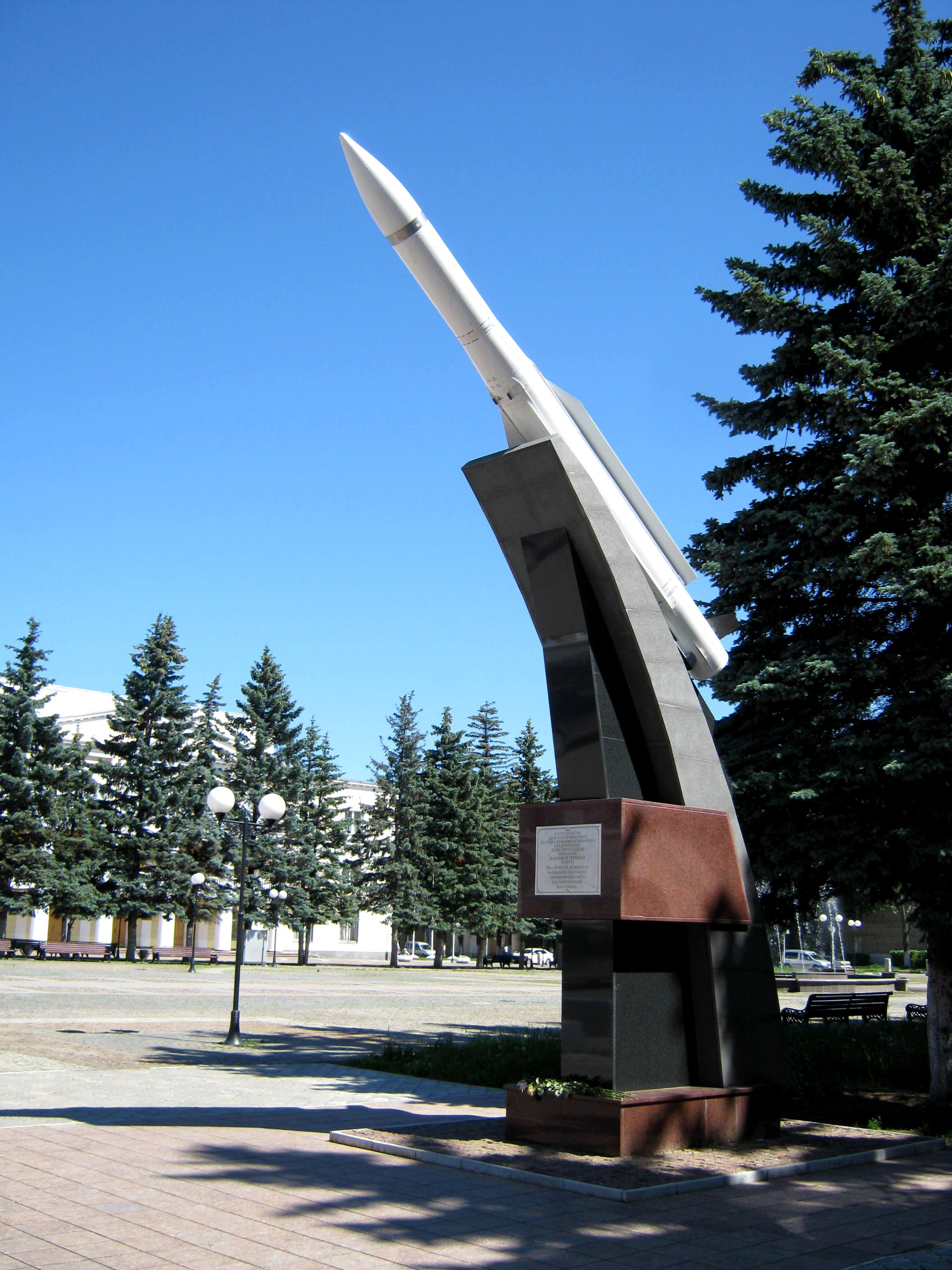 Памятник создателям ракетной техники (Долгопрудный)